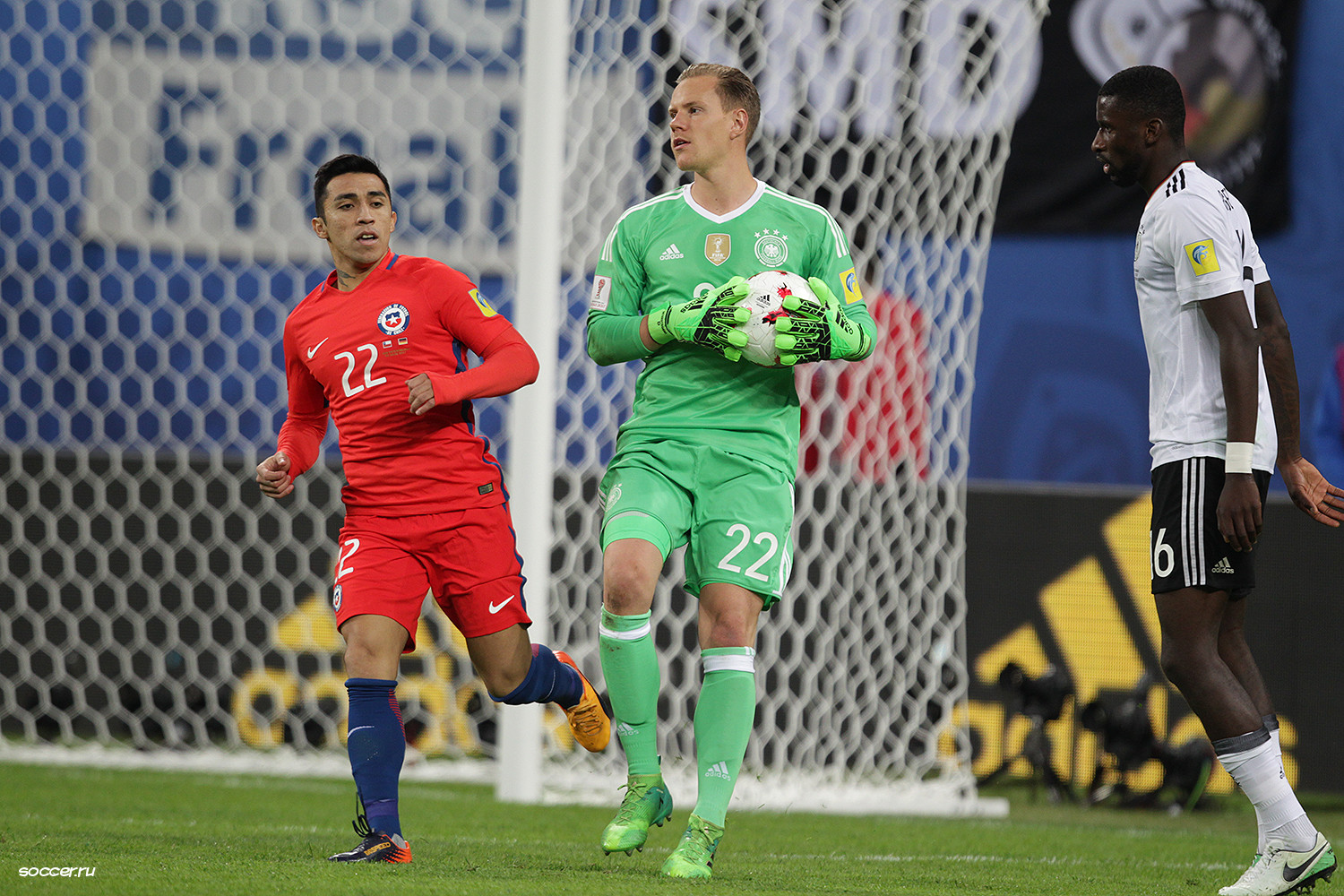 Chile - Germany, 2 Jul 2017